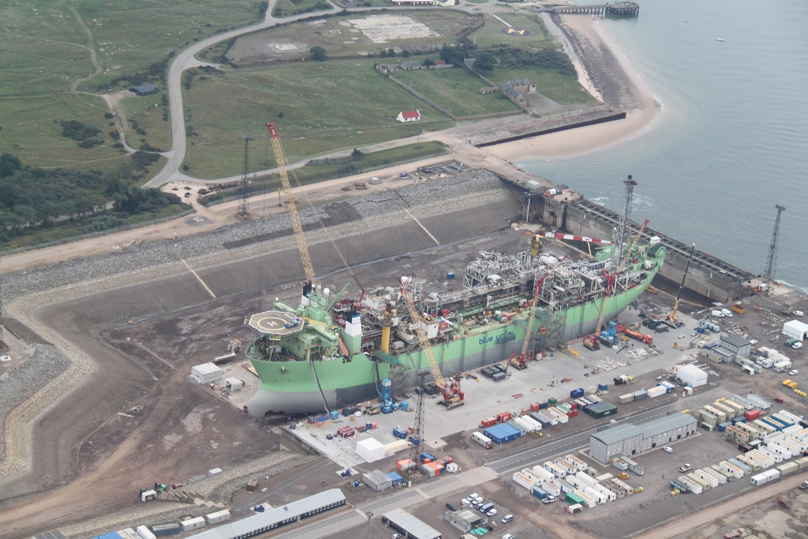 Bluewater's FPSO Hæwene Brim